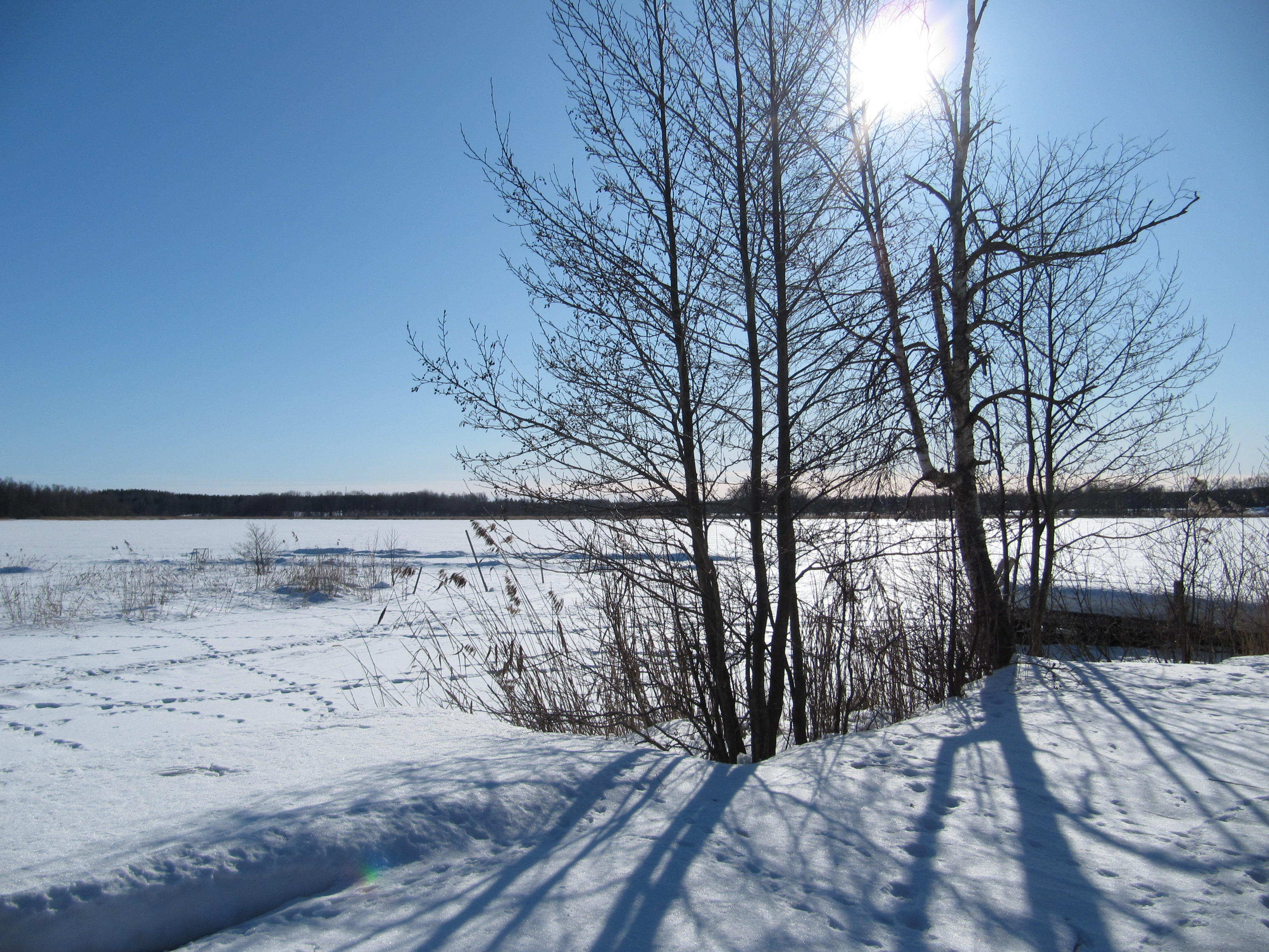 The lake Lången outside Örebro, Sweden